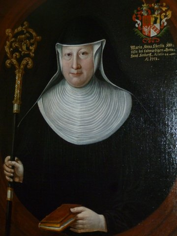 Maria Anna Eberlin, abbess of St. Lazarus Abbey of Seedorf (CH) from 1700 to 1727